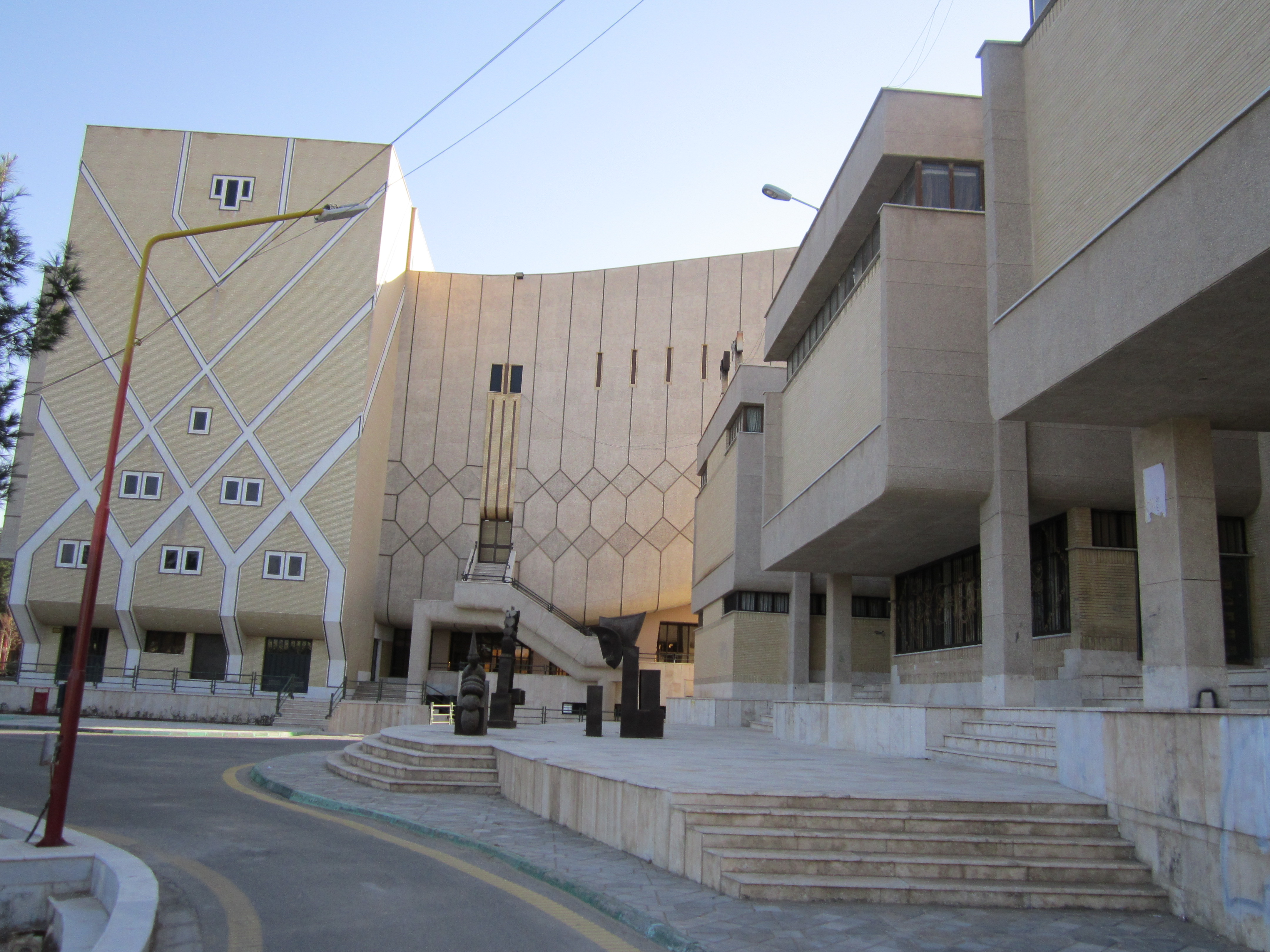 ساختمان آمفی‌تئاتر دانشگاه سیستان و بلوچستان